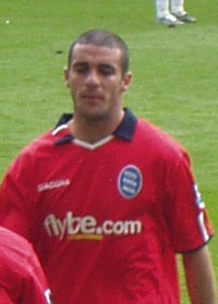 Walter Pandiani, then of Birmingham City F.C., is substituted near the end of the Premier League game away to Chelsea F.C., having scored Birmingham's goal